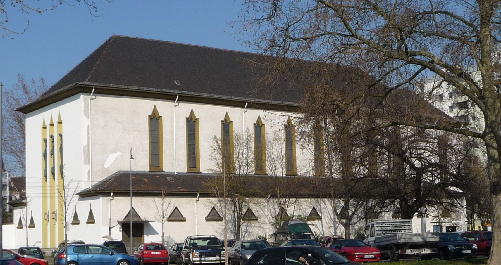 Church in Ludwigshafen, Germany